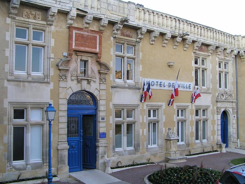 Jonzac town hall within the castle, Charente-Maritime, France